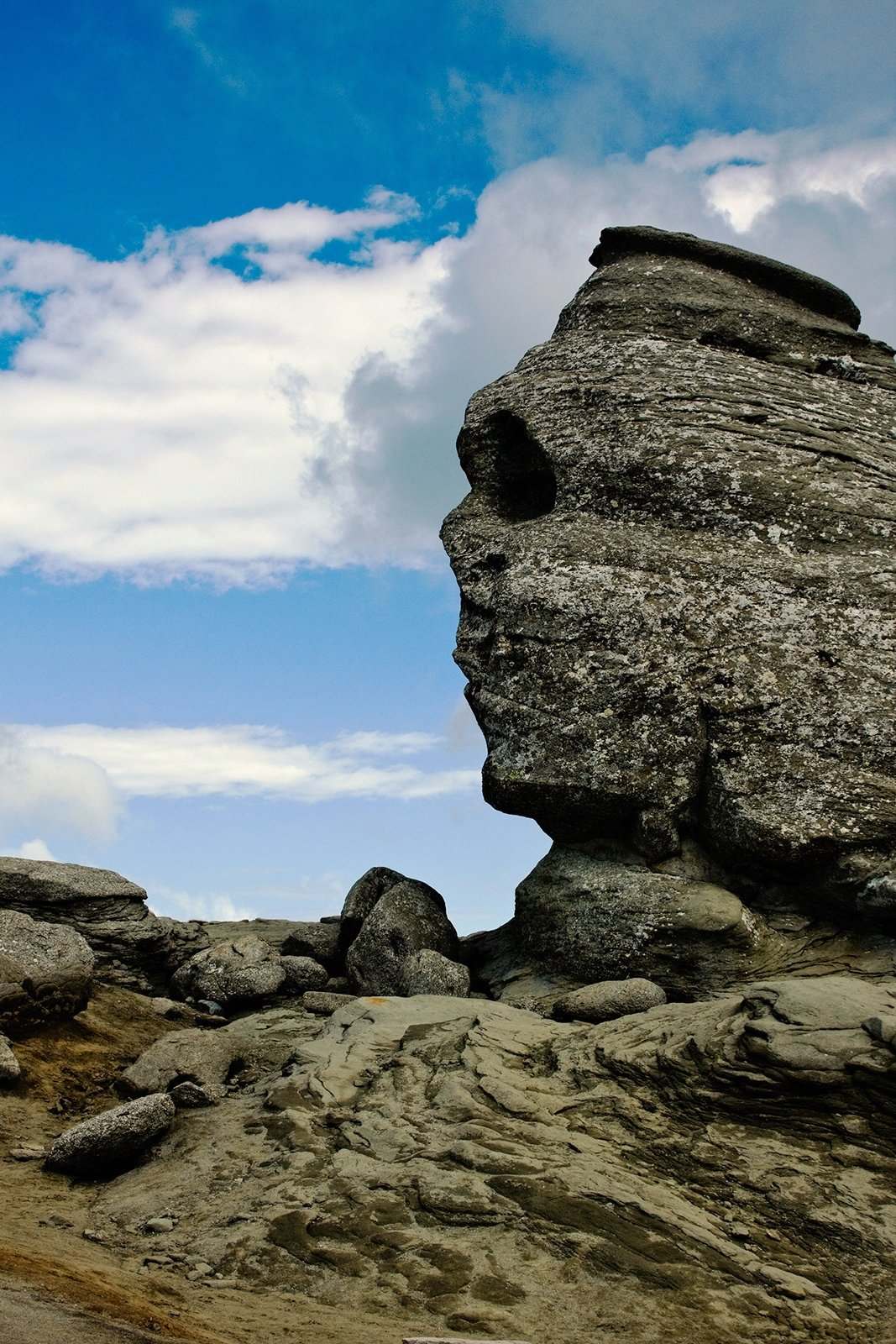 The classic angle of the Romanian Sphinx, which is becoming more and more eroded, taken on a chilly summer afternoon on top of the Bucegi Mountains. Some thick white clouds along the otherwise deep blue sky.